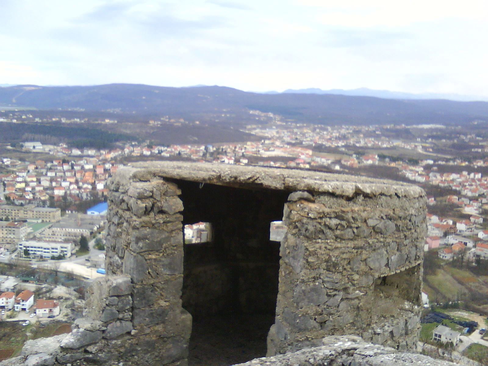 Italian fort above Široki Brijeg